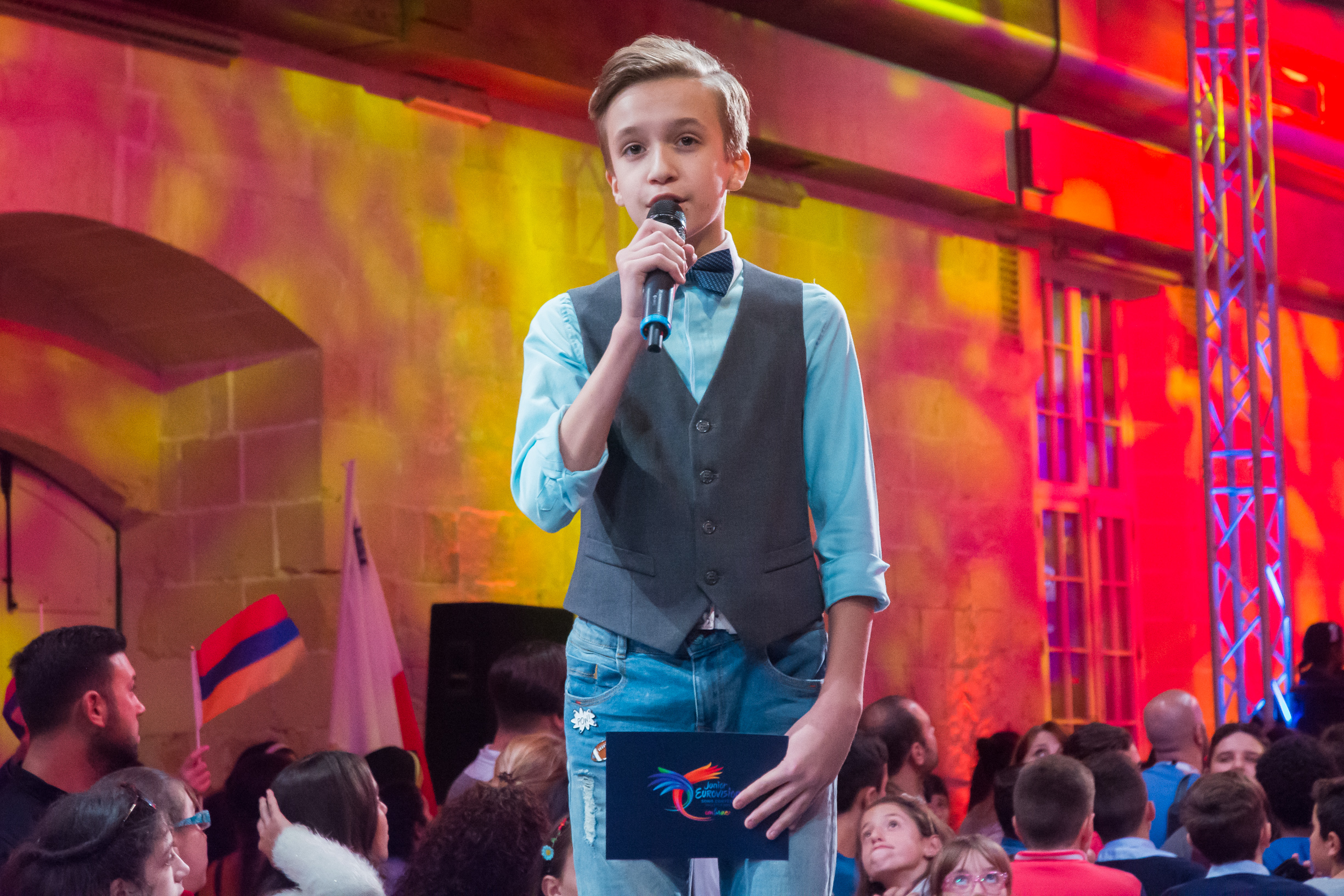 JESC 2016 spokesperson of Russia – Mikhail Smirnov